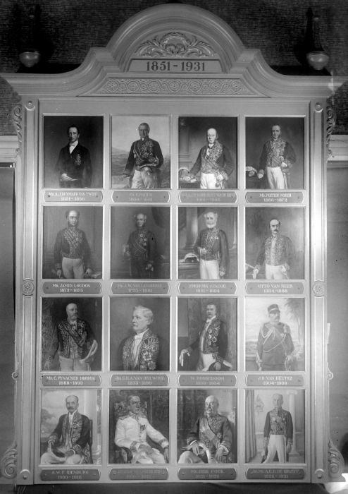 Painted miniature portraits of people that held the office of Governor-General in the Dutch East Indies for the period 1851-1931